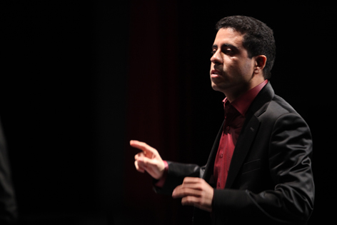 Mehrevatan Choir Band Director